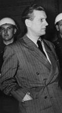 Baldur von Schirach fragment from Image:Joachim von Ribbentrop and Baldur von Schirach.jpg at CommonsWikipedia Date: Nov 20, 1945 - Oct 1, 1946 Locale: Nuremberg, [Bavaria] Germany Photographer: courtesy of Harry S. Truman Library